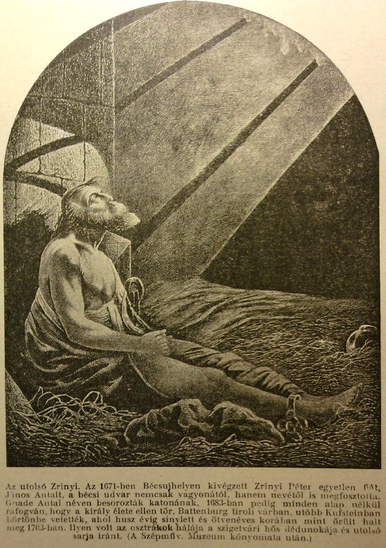 Ivan Antun Zrinski (*Ozalj(?), 1651; †Graz, November 11, 1703)